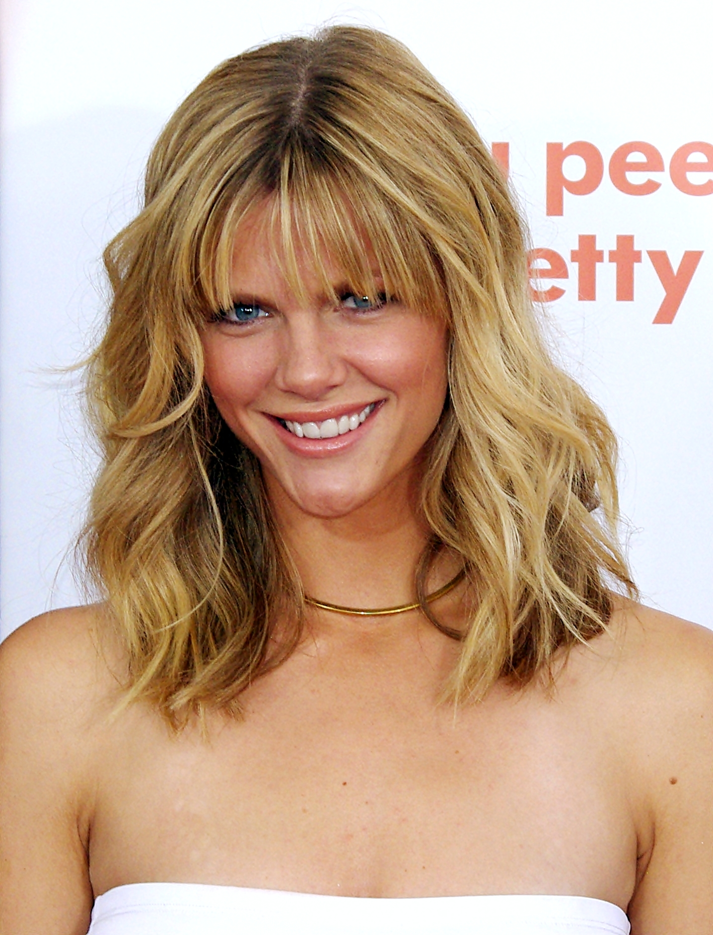 Brooklyn Decker at the 2012 premiere of What to Expect When You're Expecting in New York